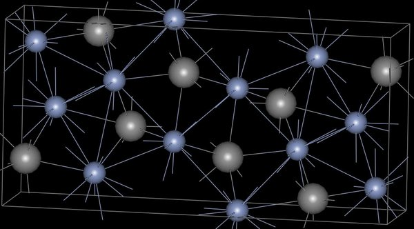 Structure of Cr3C2 carbide. Gray atoms are carbon.